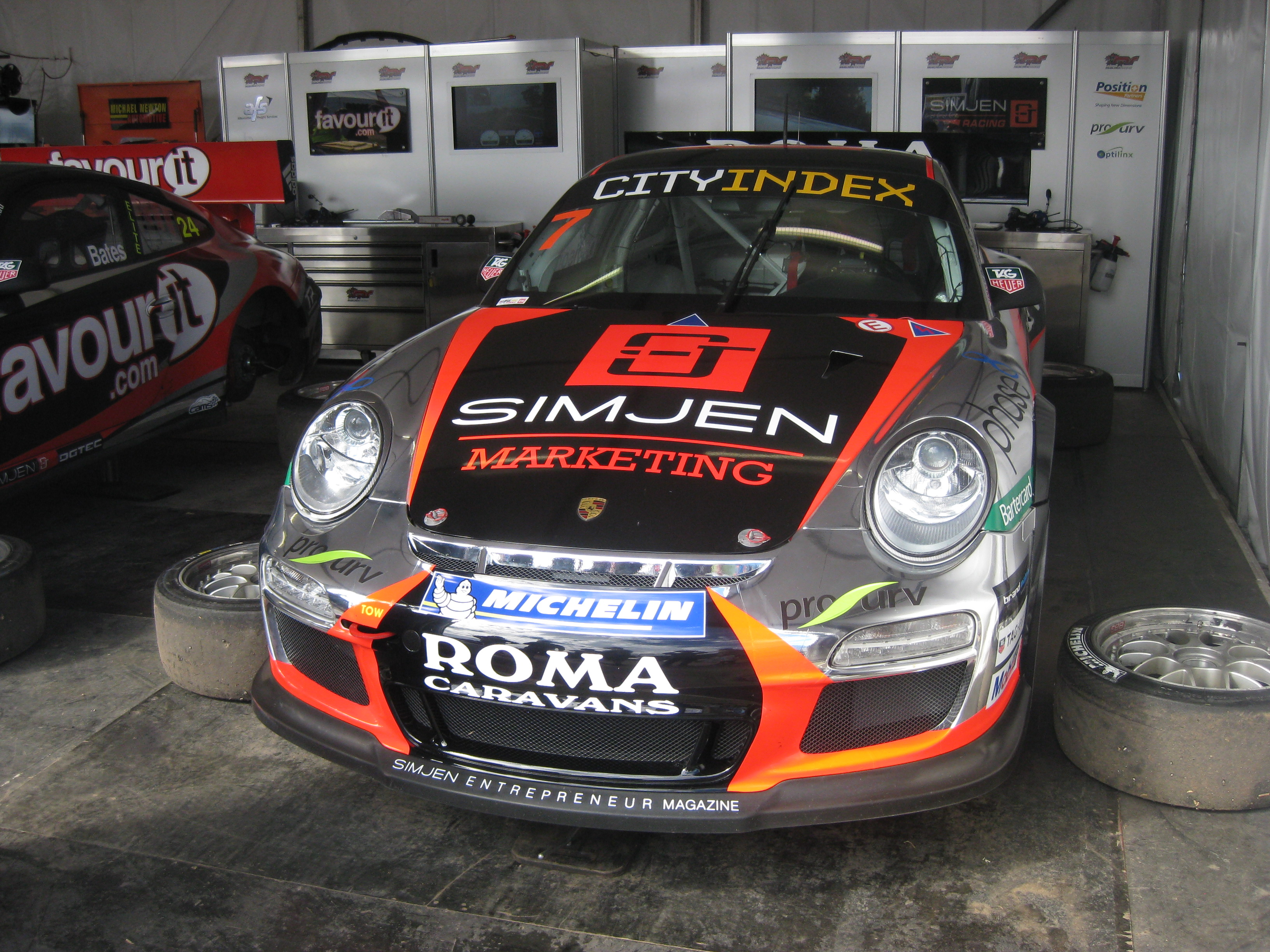 Porsche 911 GT3 Cup Type 997 of Alex Davison at the Adelaide Parklands Circuit for Round 1 of the 2012 Australian Carrera Cup Championship